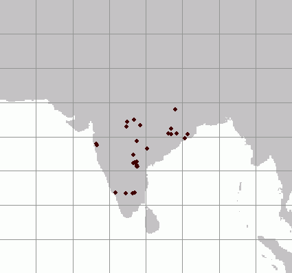 Distribution map of Anathana ellioti